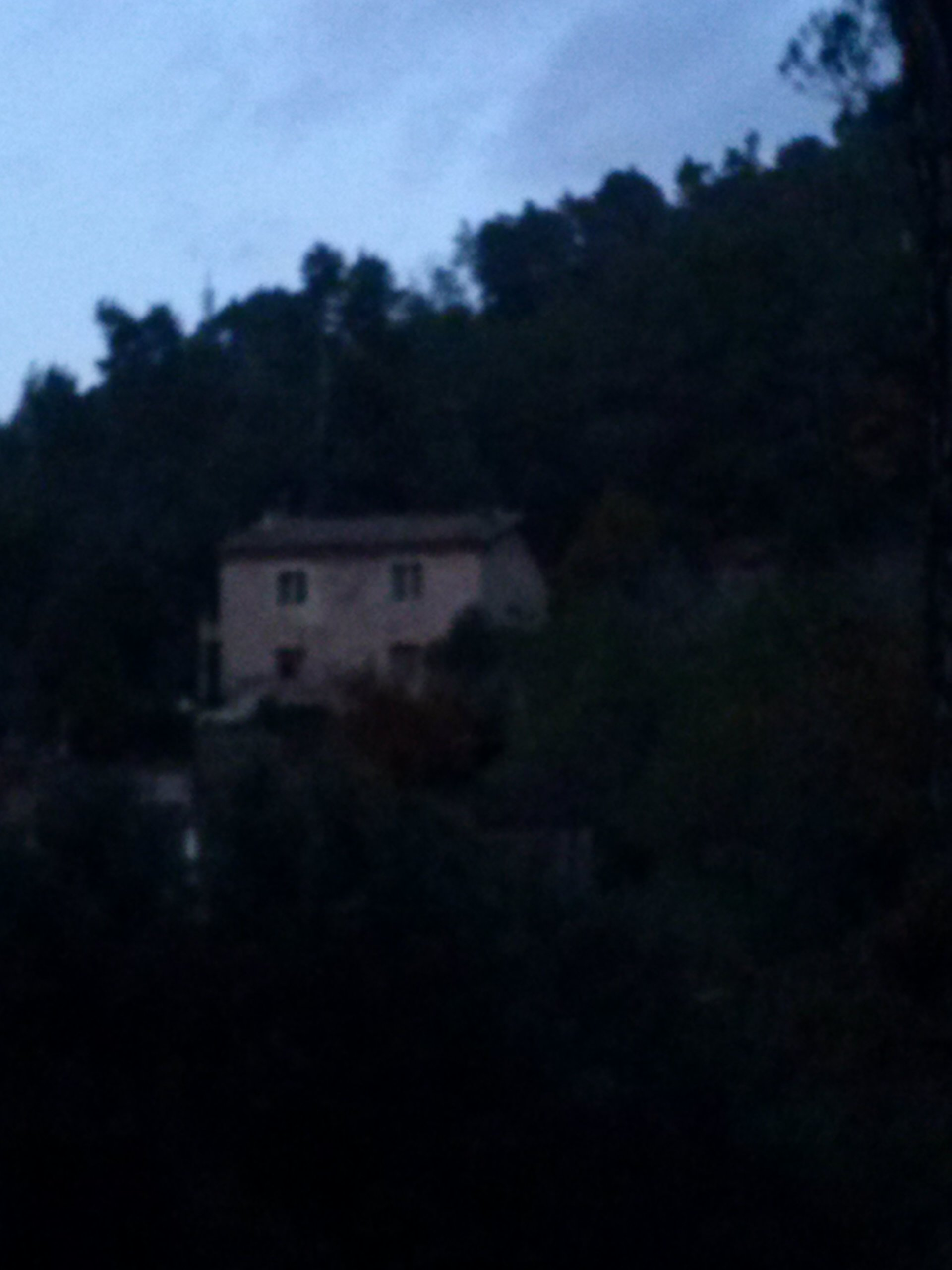 Cal Capellà, XVII,XVIII century, Tagamanent (Catalonia)